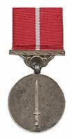 Sena Medal